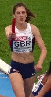 2017 European Athletics U23 Championships in Bydgoszcz Poland, 4x100m relay women final